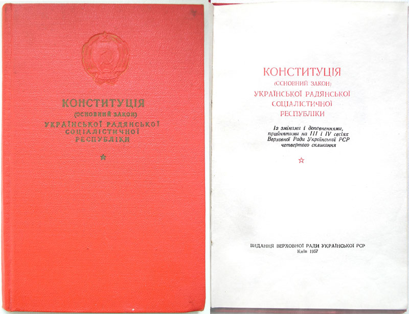 Cover of the 1937 Constitution of the Ukrainian SSR.